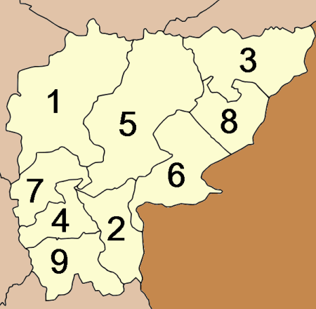 Map of Sa Kaeo province, Thailand, showing the districts Mueang Sa Kaeo (อำเภอเมืองสระแก้ว) Khlong Hat (อำเภอคลองหาด) Ta Phraya (อำเภอตาพระยา) Wang Nam Yen (อำเภอวังน้ำเย็น) Watthana Nakhon (อำเภอวัฒนานคร) Aranyaprathet (อำเภออรัญประทศ) Khao Chakan (อำเภอเขาฉกรรจ์) Khok Sung (sub-district) (กิ่งอำเภอโคกสูง) Wang Sombun (sub-district) (กิ่งอำเภอวังสมบูรณ์)